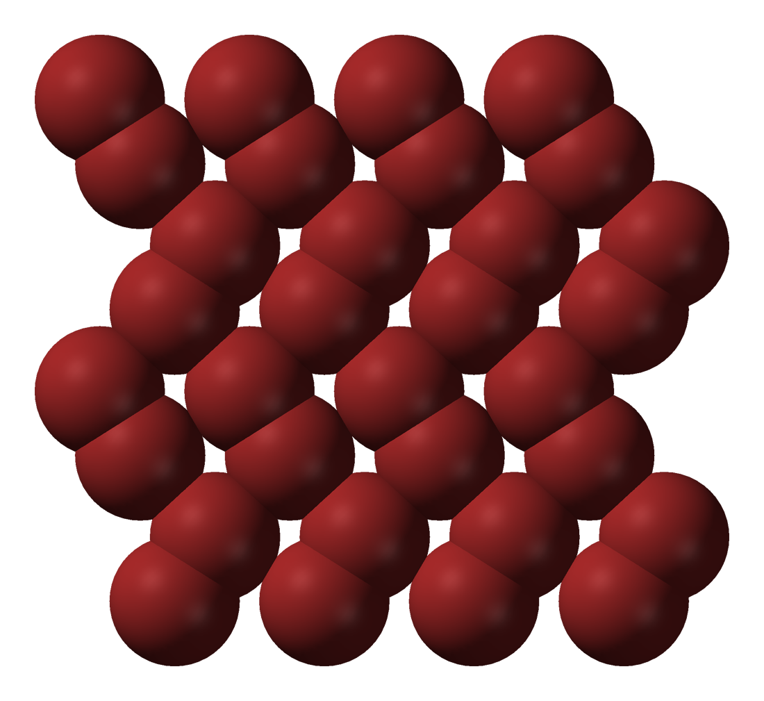 Space-filling model of part of the crystal structure of bromine. Crystal structure data from Wyckoff (1963) Crystal Structures - Second Edition, Volume 1. John Wiley, New York. Image generated in Accelrys DS Visualizer.